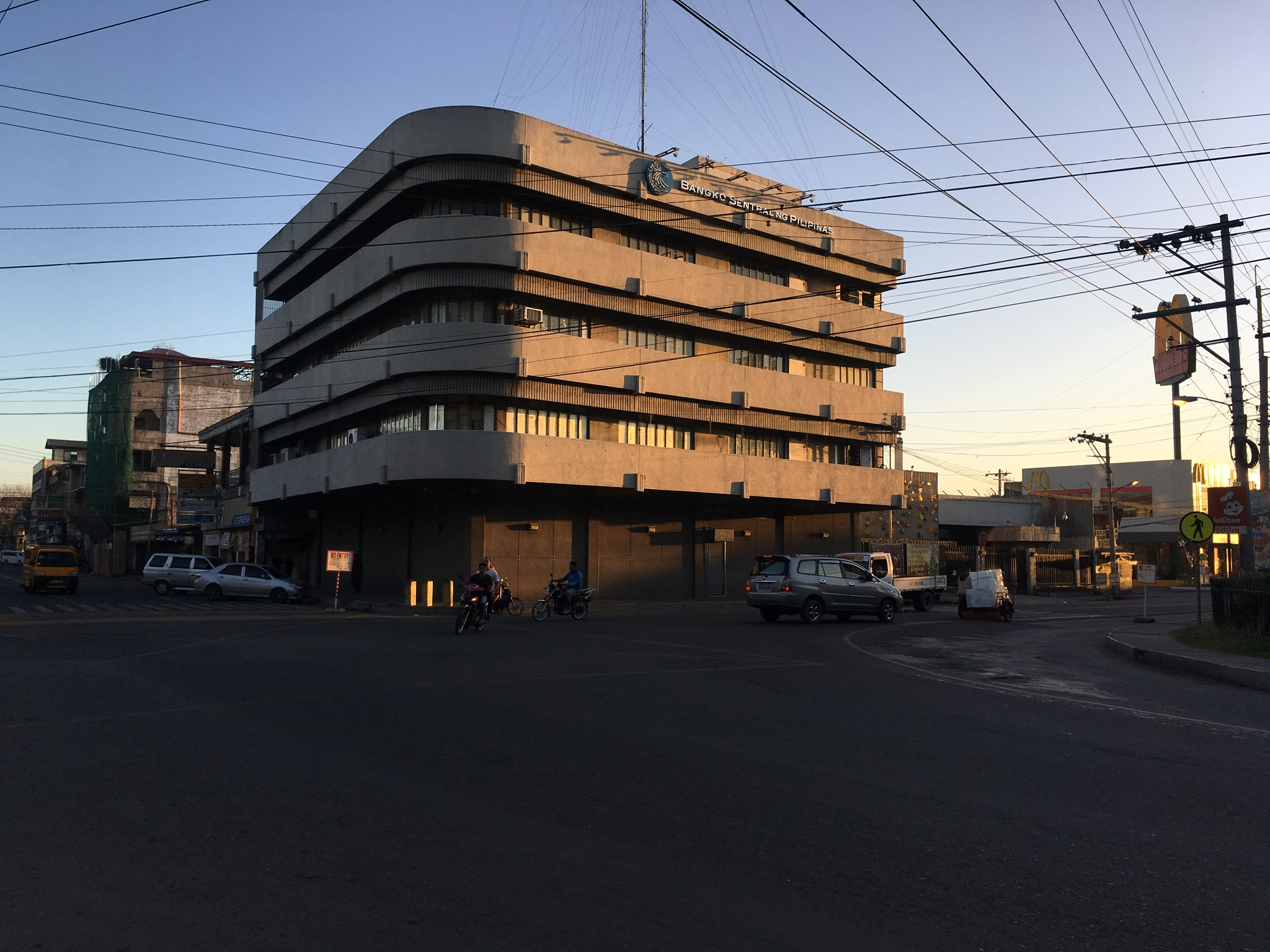 Central bank of the Philippines in Cotabato City Branch